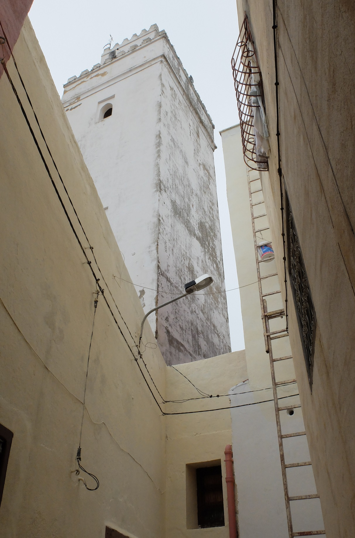 Minaret of the Great Mosque of Taza, seen from one of the nearby streets.